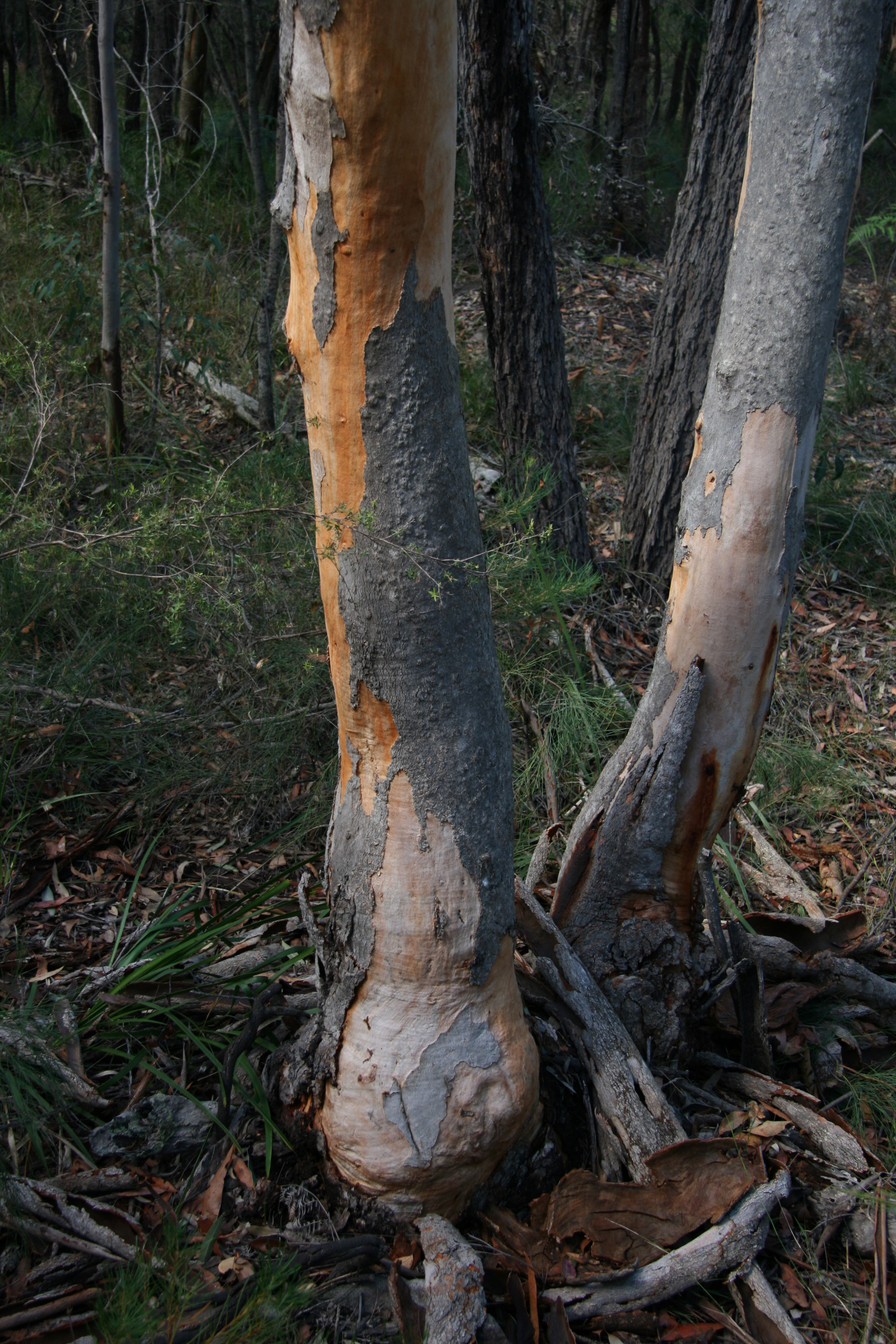 Eucalyptus punctata trunk Georges River National Park (Just east of Sylvan Grove)